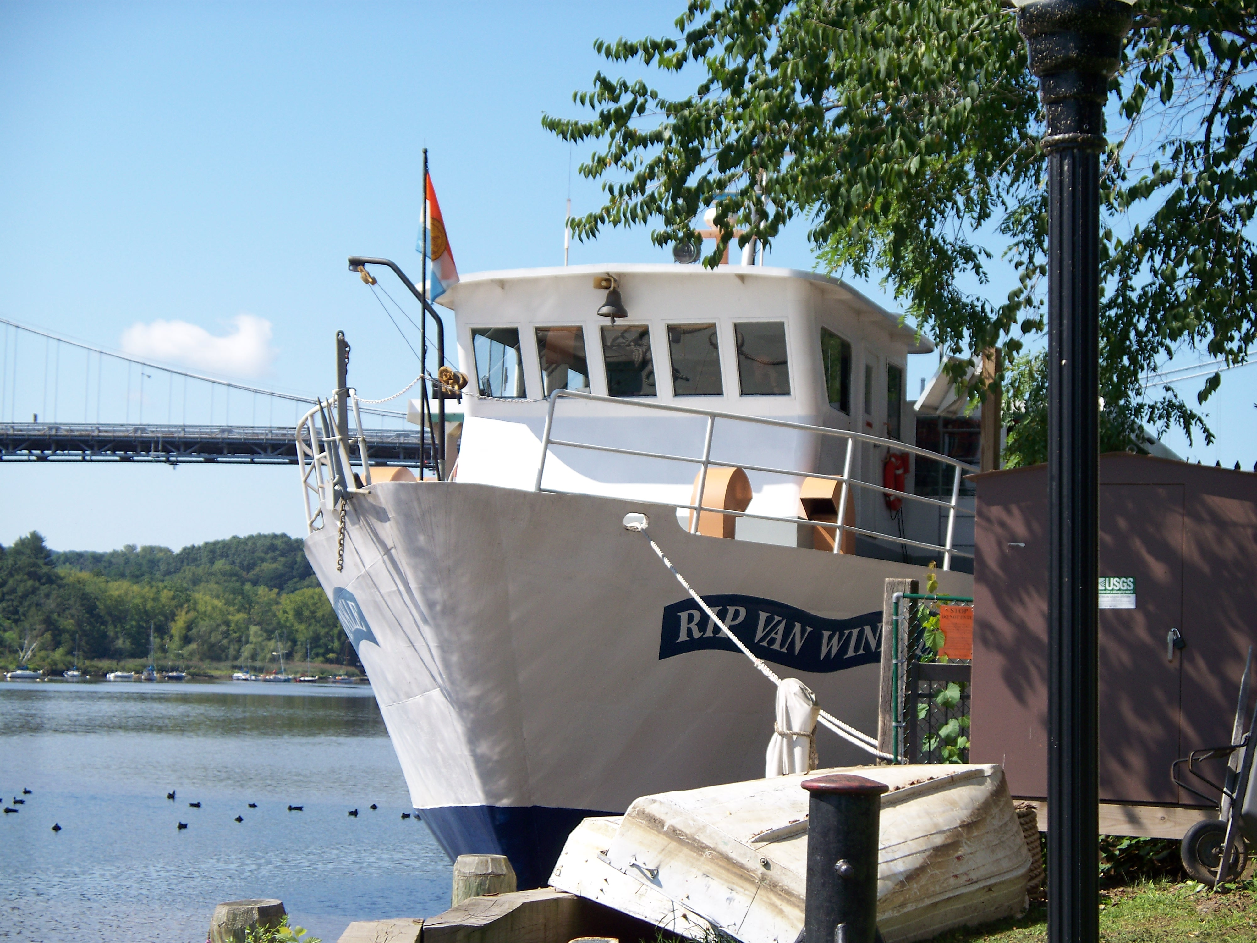 This is the Rip Van Winkle at her home port